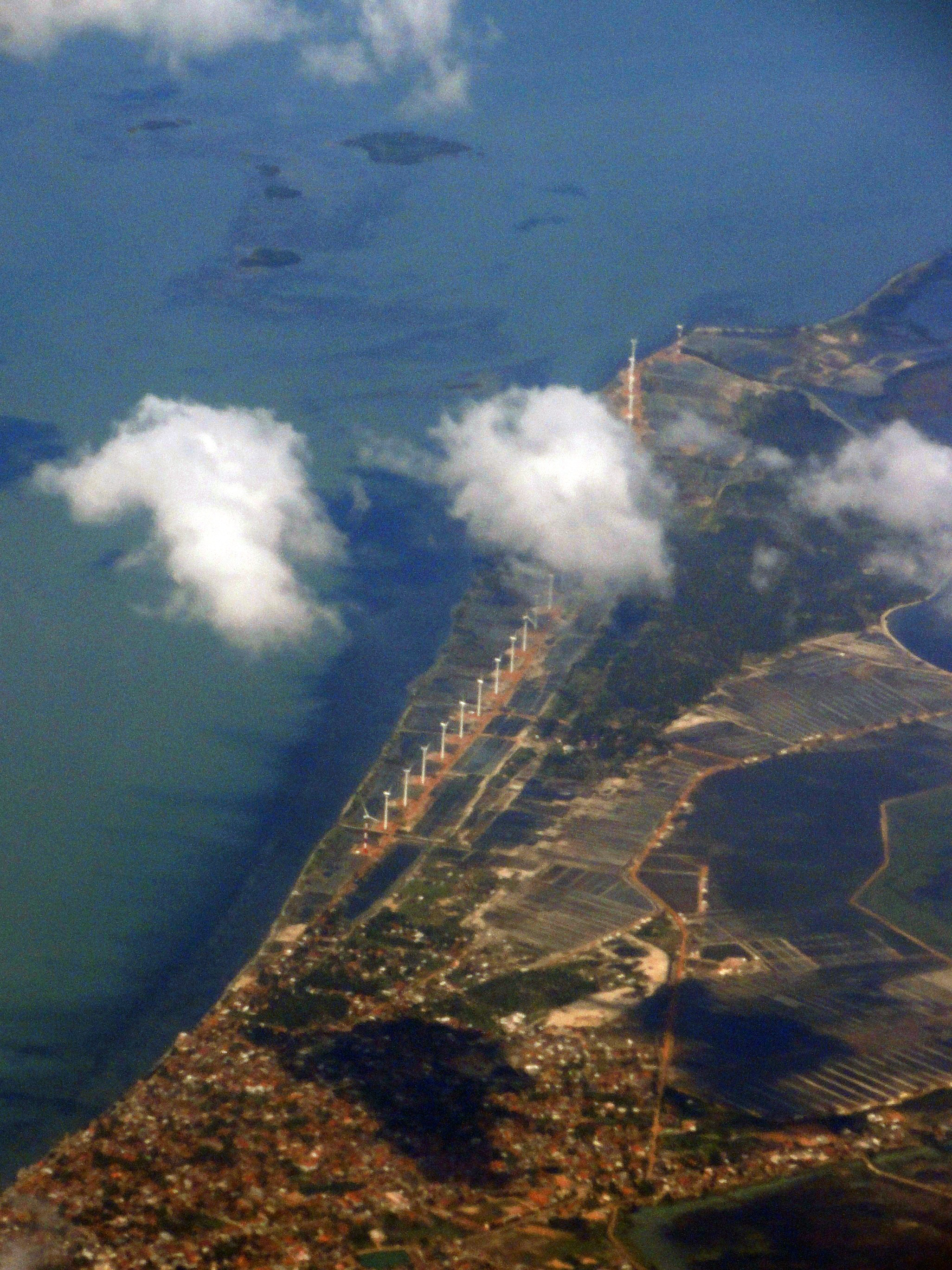 Aerial photograph of the Seguwantivu and Vidatamunai Wind Farms, Puttalam District, Sri Lanka.